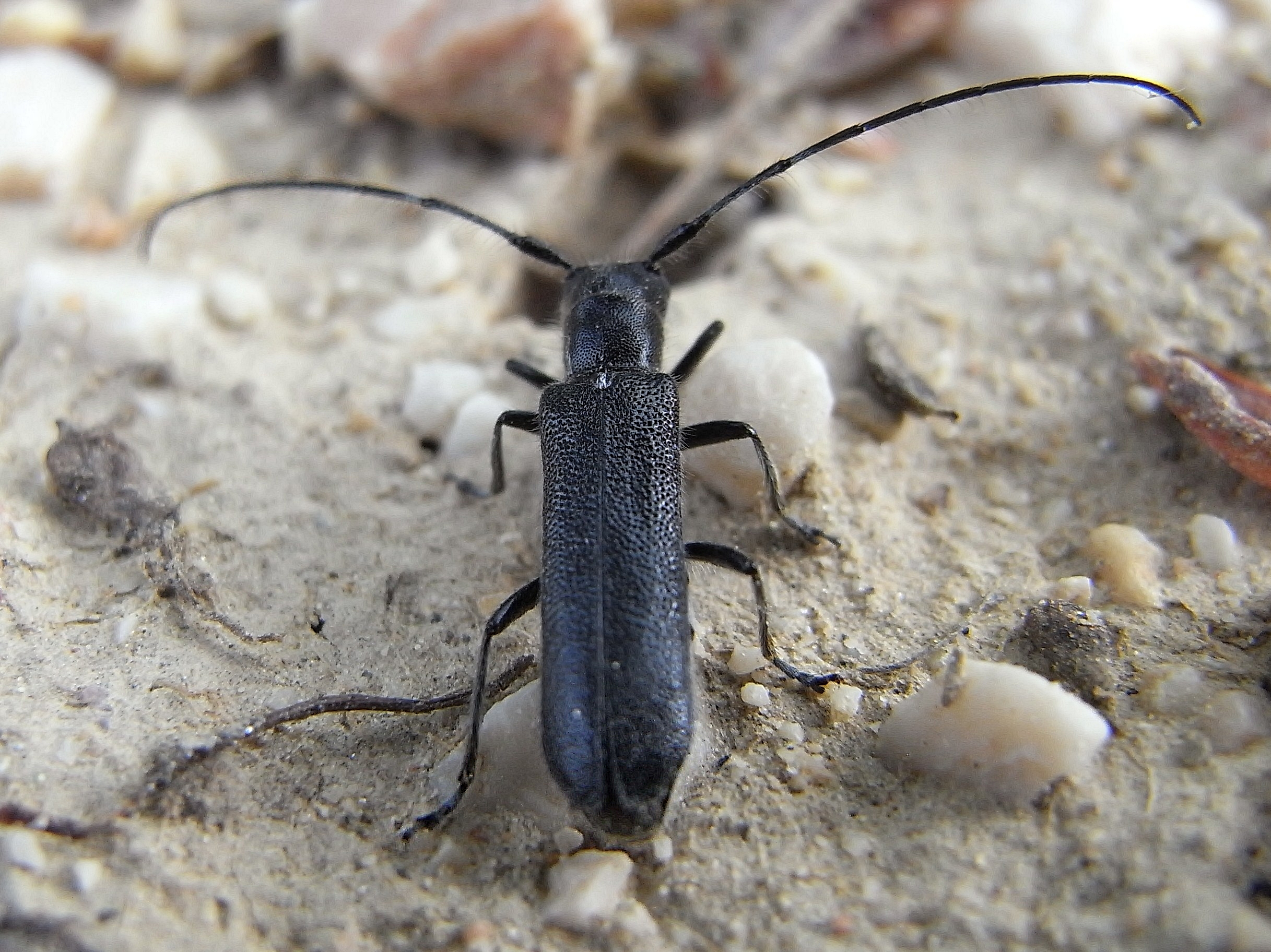 Stenostola dubia from Hungary, Villany-hills, at 2010-05-06 Ricoh R8